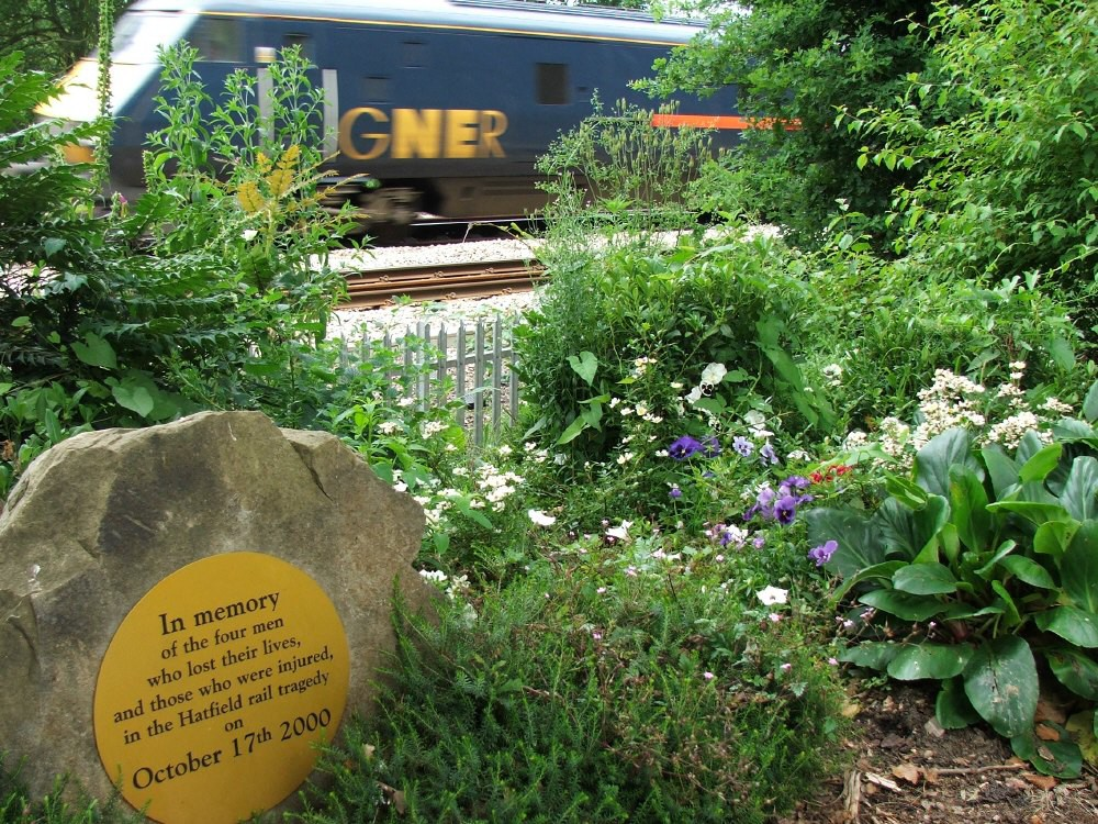 The memorial garden created alongside the East Coast Main Line for those who died in the Hatfield train crash.